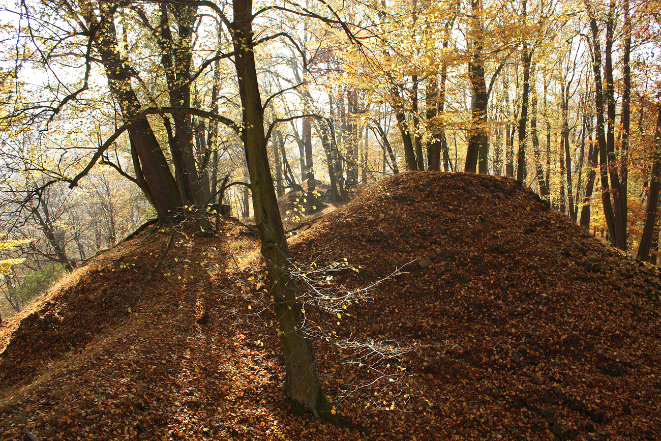 Křivoklátsko - Zřícenina Jivno